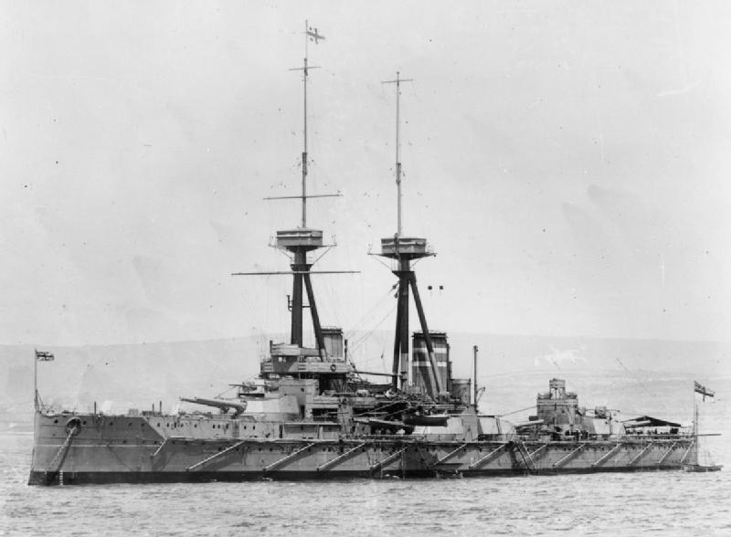 British Battleships of the First World War H. M. S. Battleship ST. VINCENT, 1910